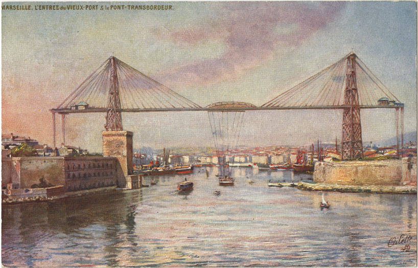 Series " Villes De France, Marseille I " 947. Oilette postcard view of ships entering the port of Marseille and a large pedestrian bridge.